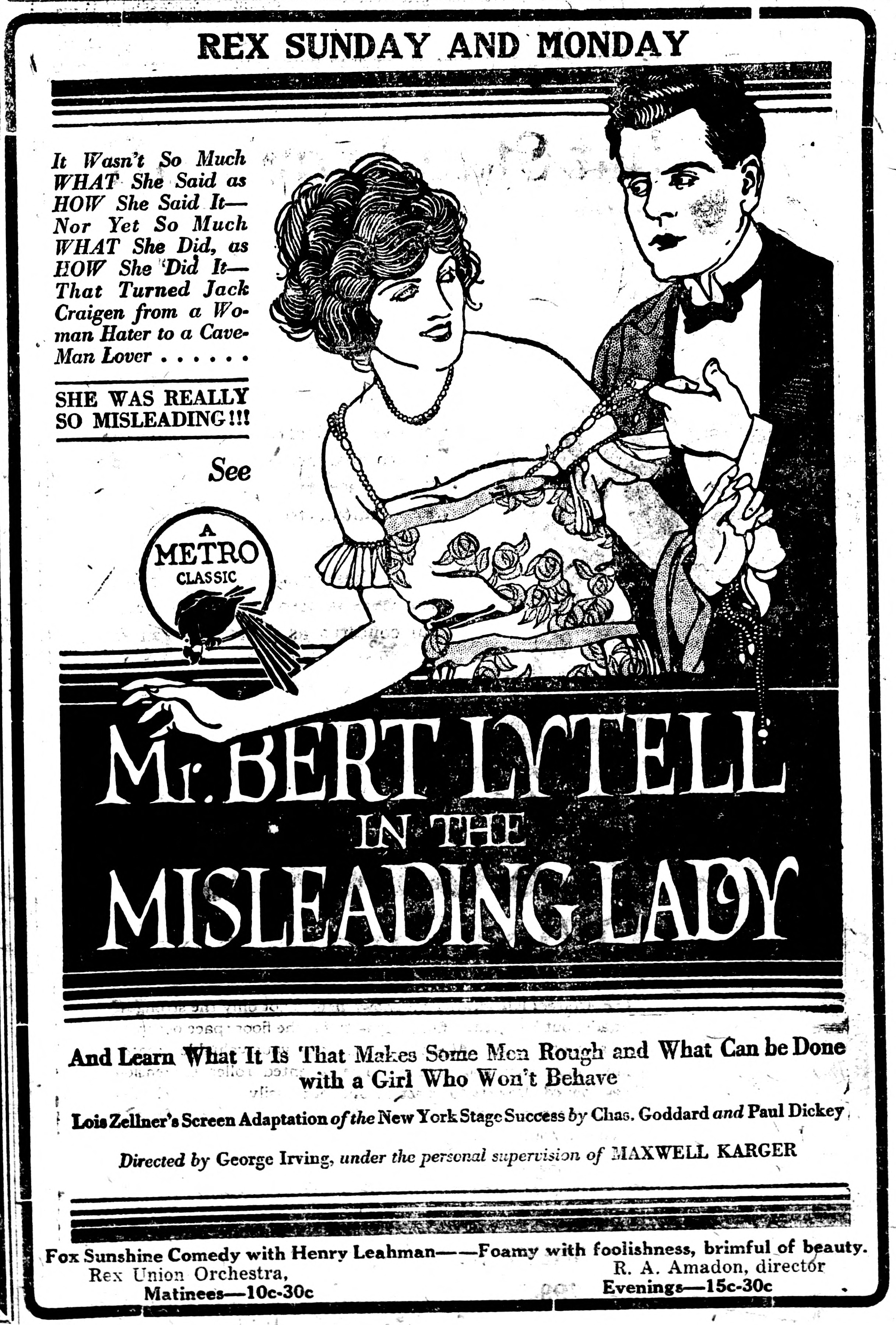 The Misleading Lady is a 1920 American silent comedy film. This is from a newspaper advert.